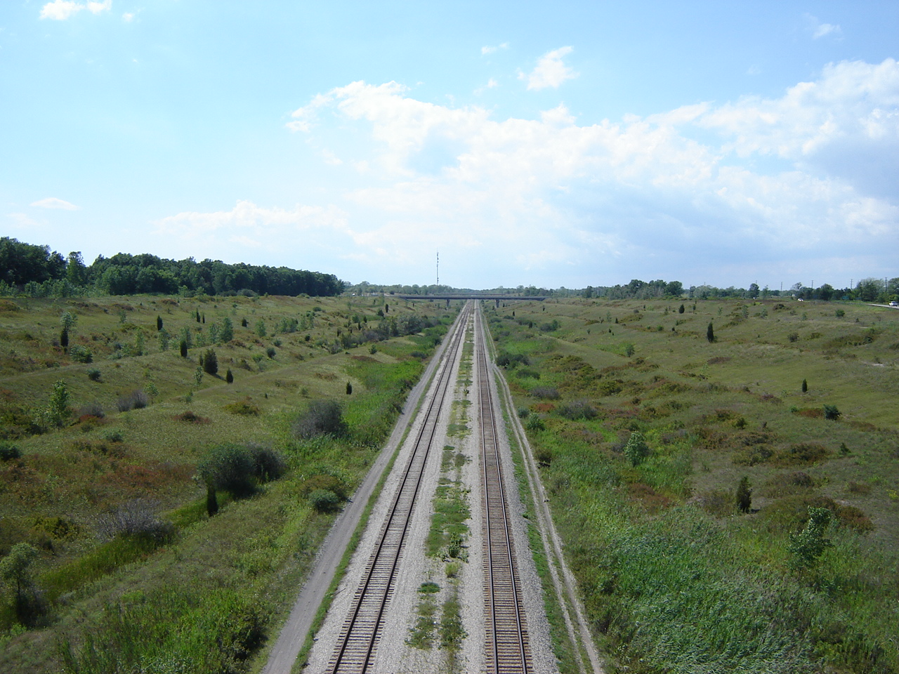 The elongated west approach to the Townline Tunnel. Photo taken from the CN rail viaduct over the approach.